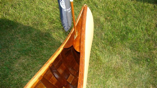 heart-shaped short deck of a Morris canoe, complete with pennant holder and pennant